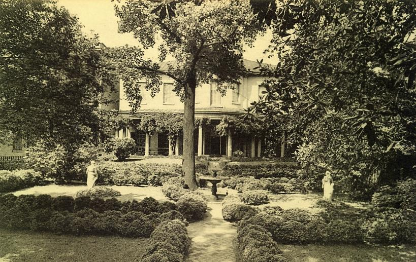 The John Wickham House, Richmond, VA; from a c. 1920 postcard published by the Meriden Gravure Company. Built in 1811-1812, it was designed by Alexander Parris.